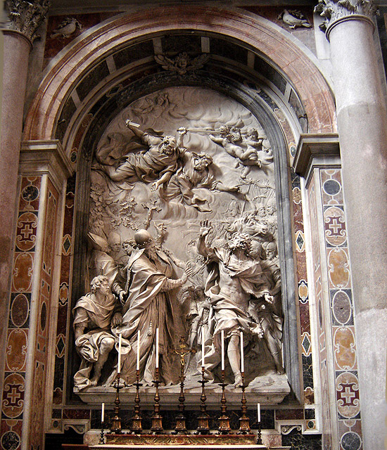 Fuga d'Atilla, marble relief by Alessandro ALgardi, Saint Peter's Basilica